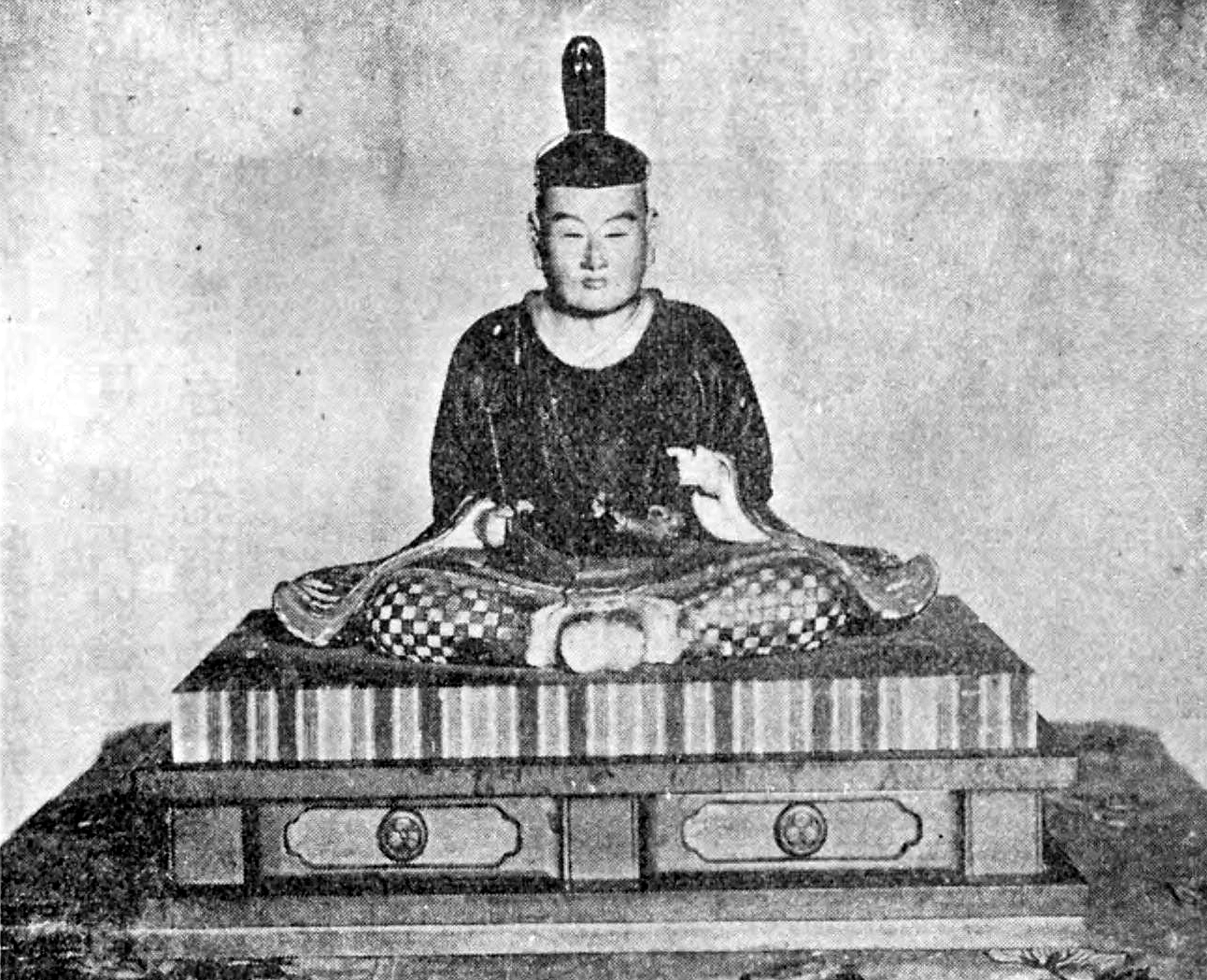 Wooden statue of Makino Tadanari